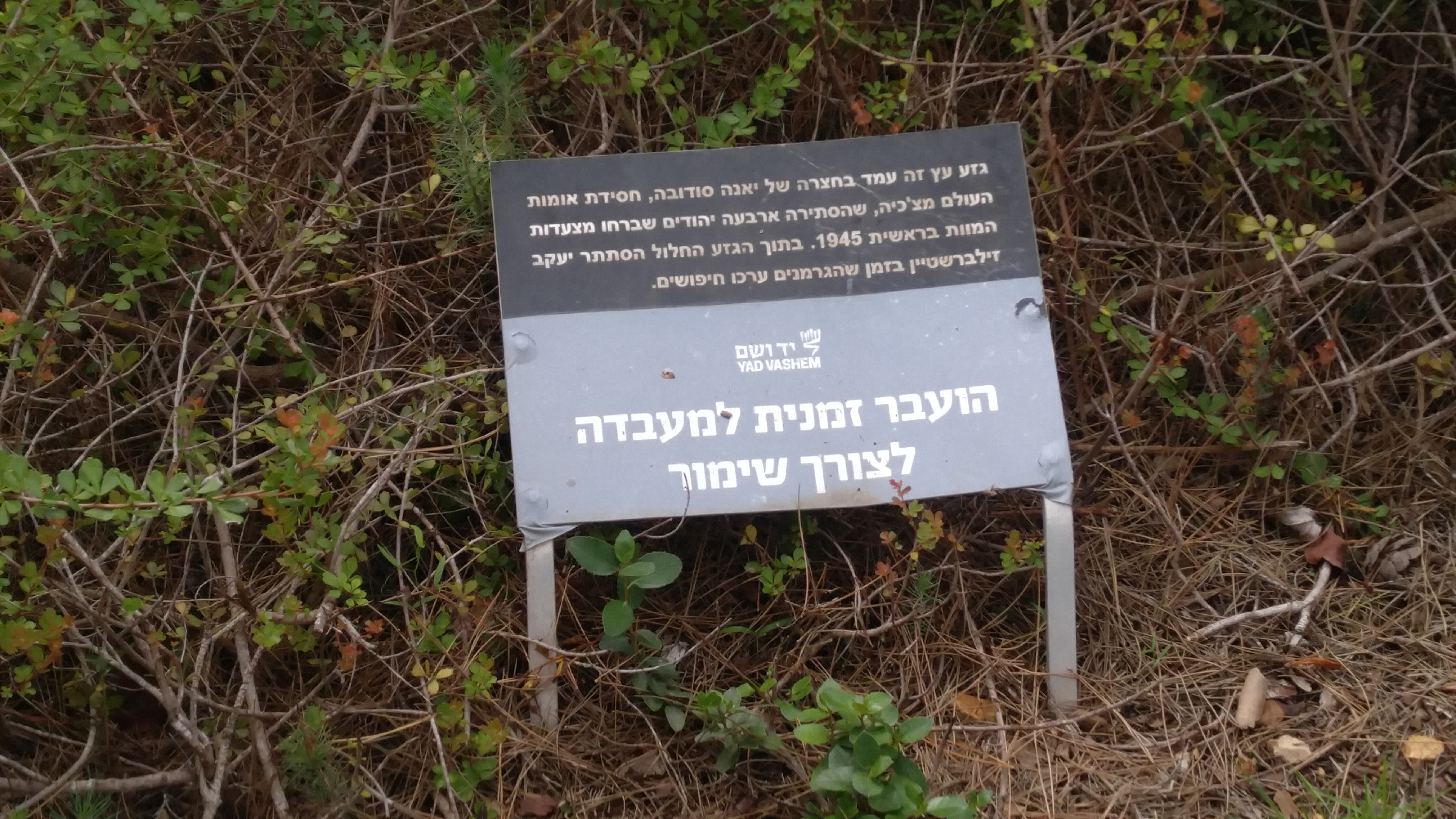 memorial for Righteous Among the Nations in Yad Vashem Garden Jerusalm